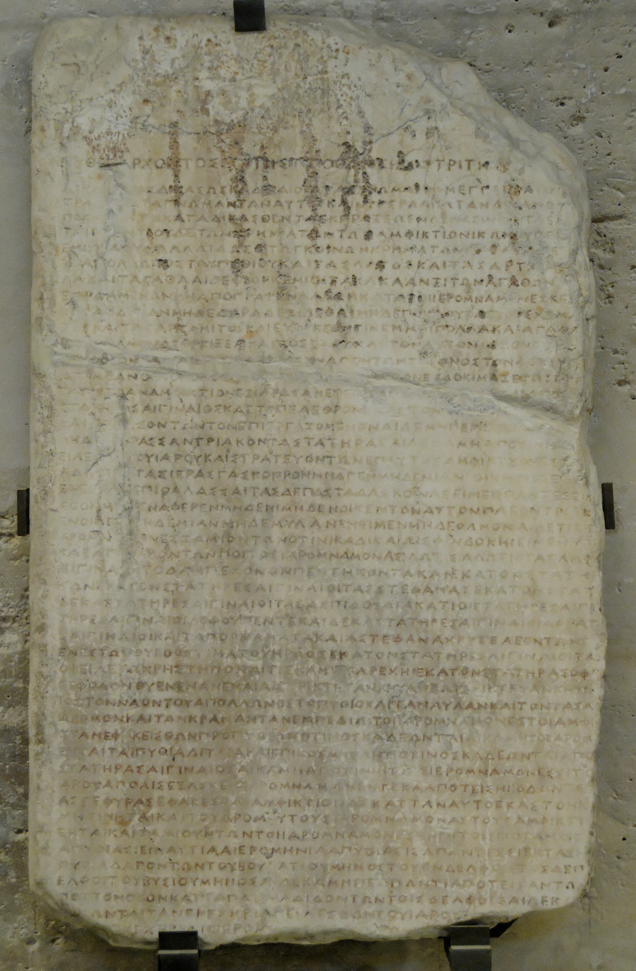 Amphictionic law of Delphi. Pentelic marble, 4th century BC, from Aegina. The back of the stele was sawed; the lower and right portions are mutilated; the stele was broken into two fragments now joined together.